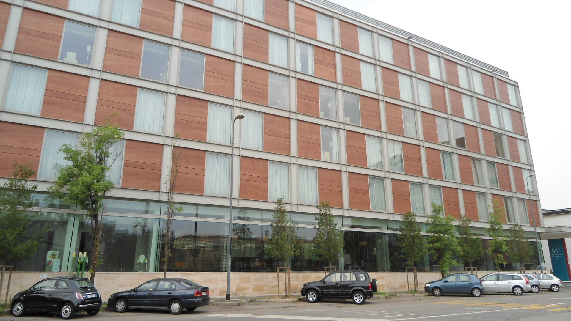 Double Tree Hotel, Via Ludovico di Breme, 77